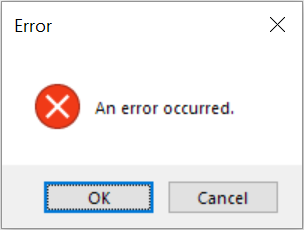 Error dialog box with a generic error message in a desktop application